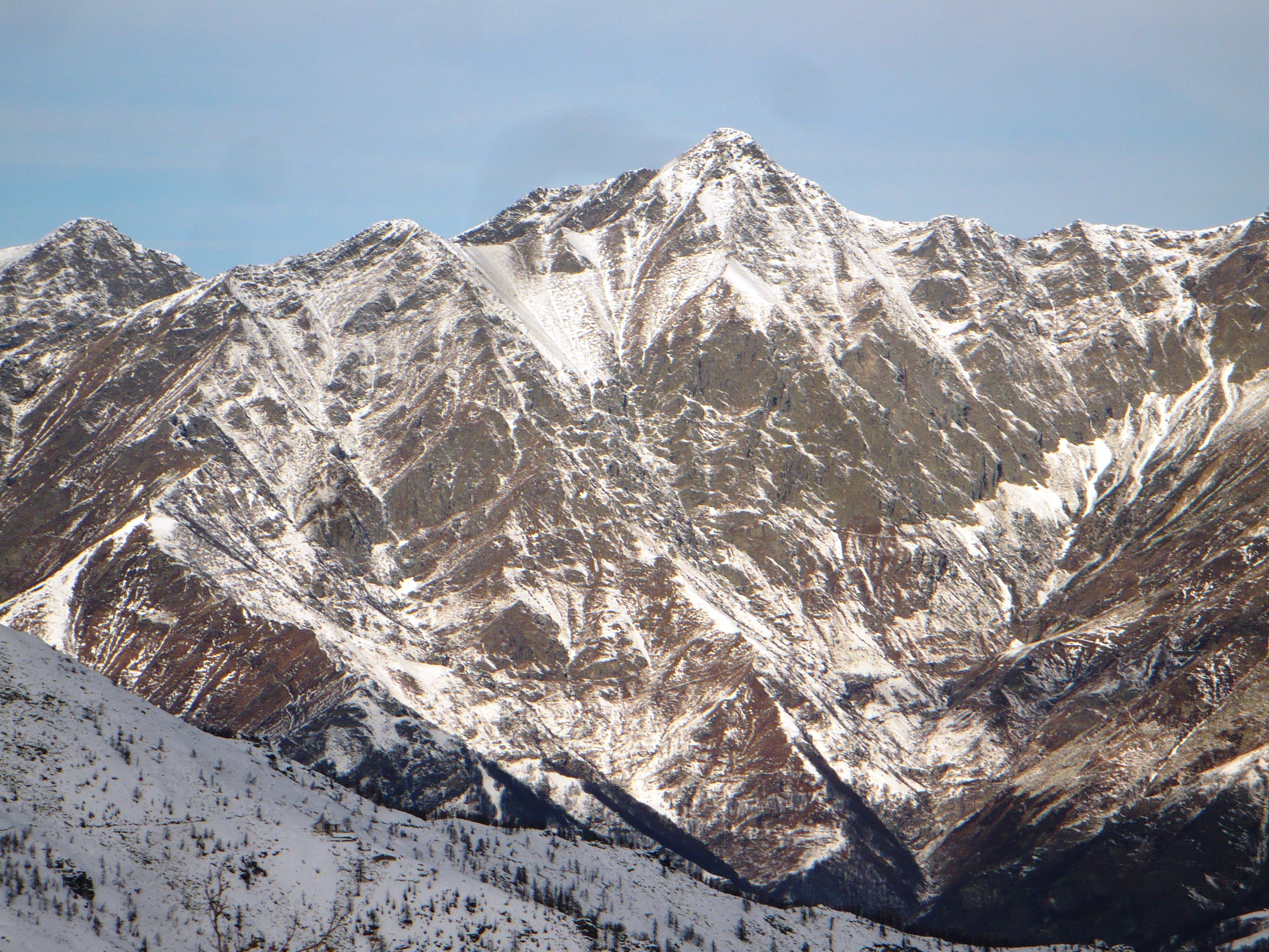 Punta Cornour from sud (from Rucas) - Cottian Alps